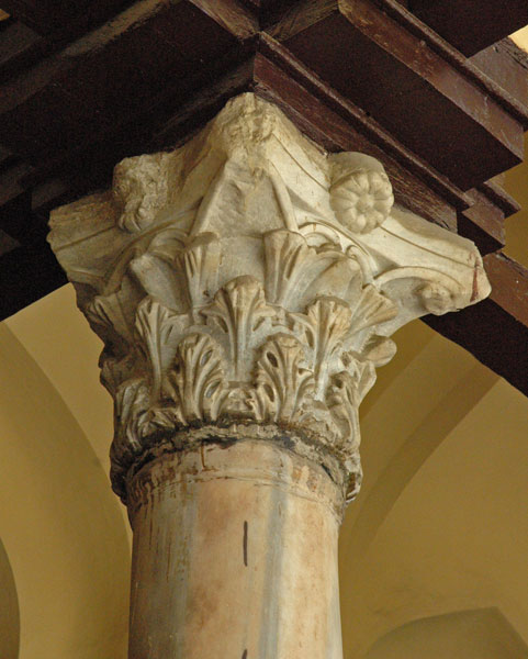 Al-Aqmar Mosque. Cairo. Egypt